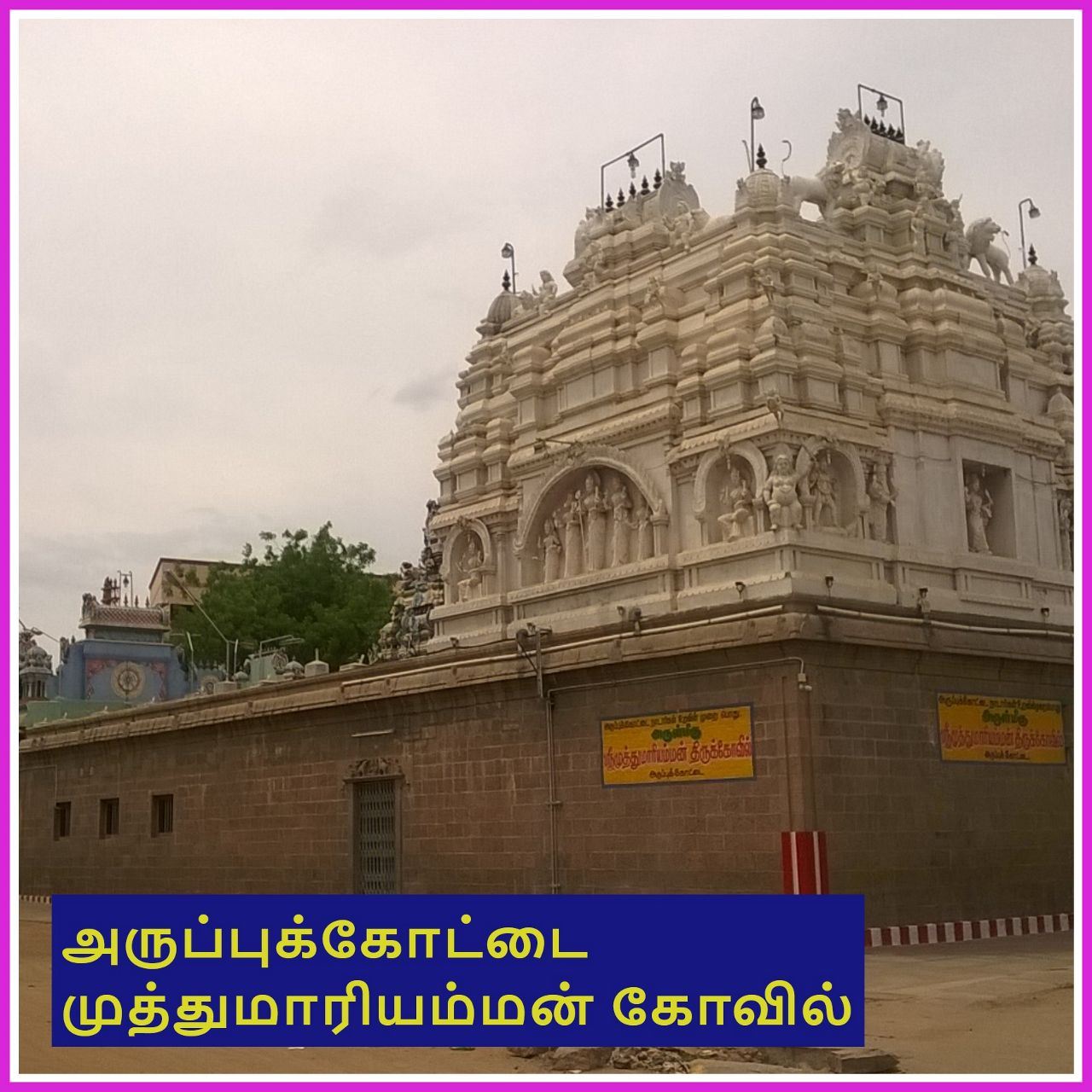 Image of Muthumariamman Temple at Aruppukottai